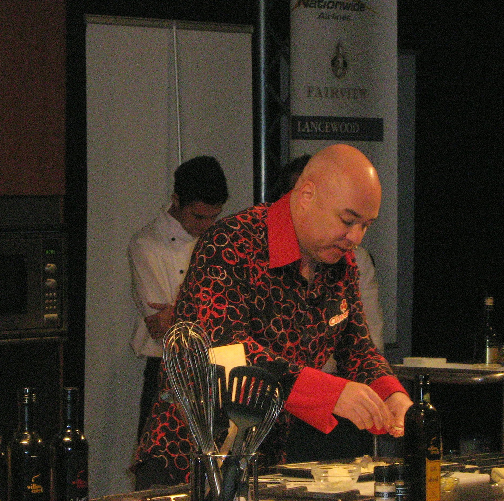 South Africa artist Nataniël at a cooking-with-cheese demonstration, after his accident the previous night with a bottle of white wine. The two assistance is the background have just been told off again and cannot contain themselves.